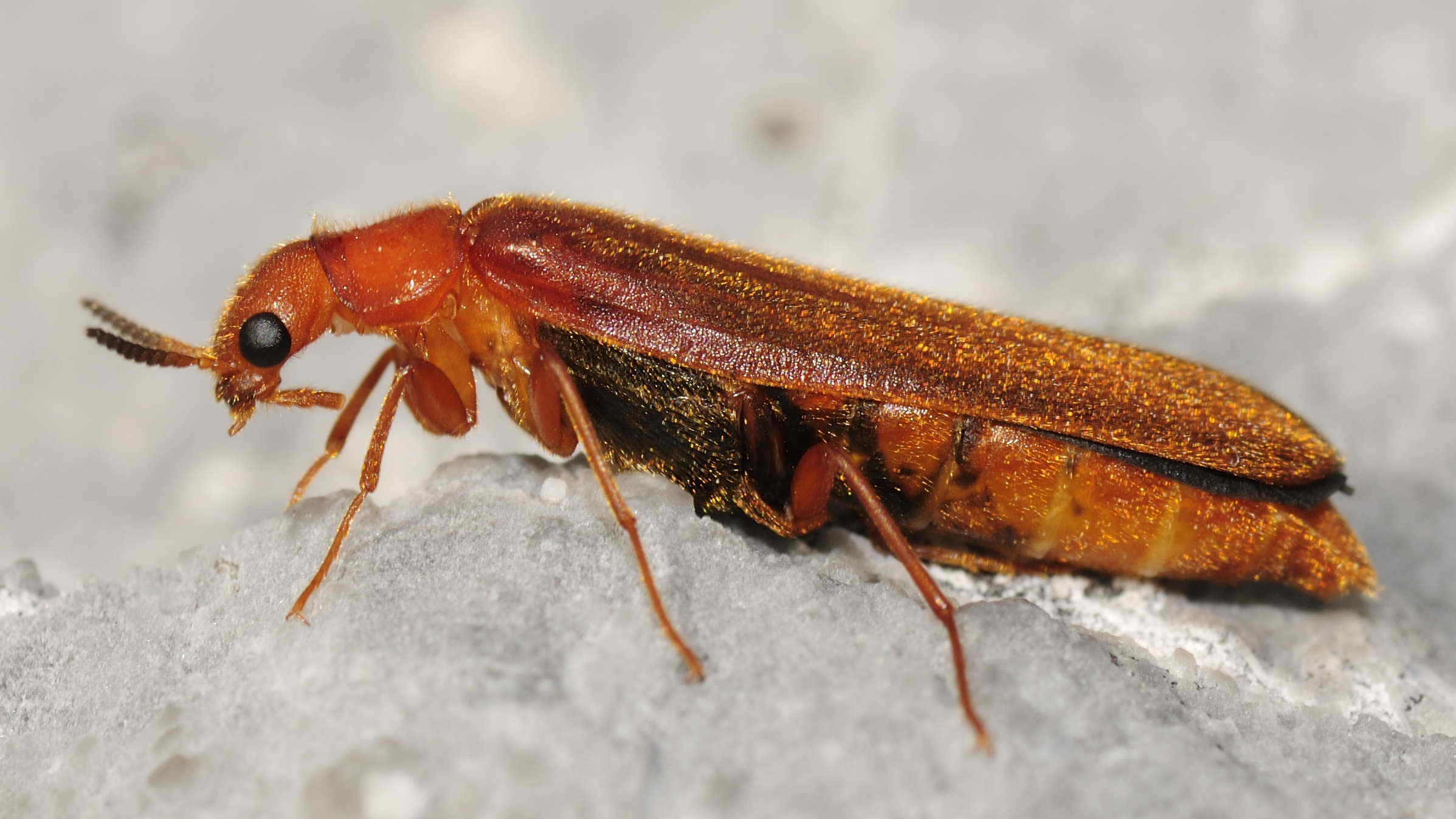 Lateral view of Hylecoetus dermestoides. Size ~1.5 cm